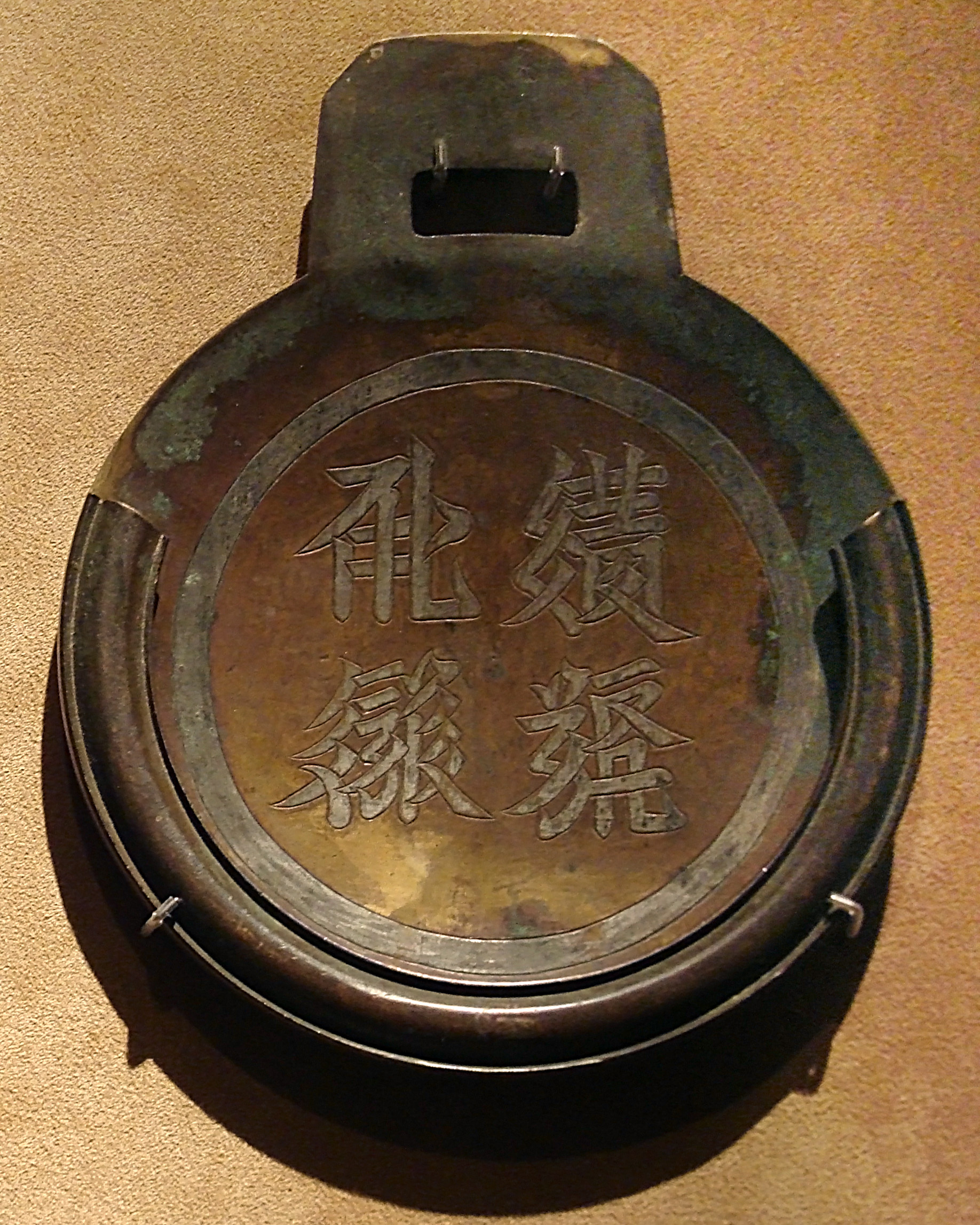 Bronze Edict Plate with Western Xia characters. Western Xia Dynasty (A.D. 1038 - 1227) Created by the Dang Xiang ethnic group, the Western Xia characters used modified Chinese scripts. This bronze plate, when joined together perfectly with its matching half, proves the bearer's identity. On this plate is written Western Xia characters; the interior of the other is decorated with stylized patterns. Edict plates were used to send urgent documents and messages, under imperial orders.